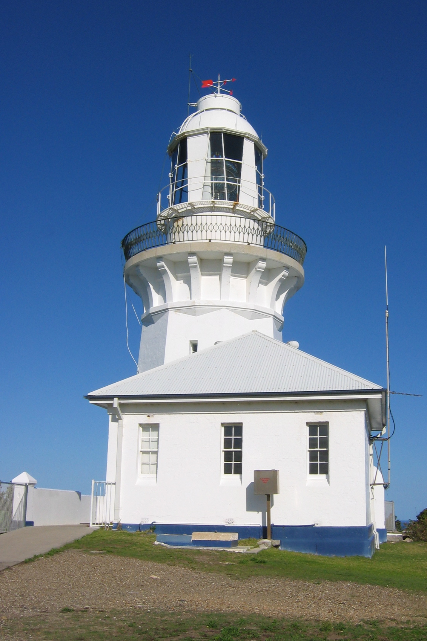 Full length shot of Smoky Cape Lighthouse